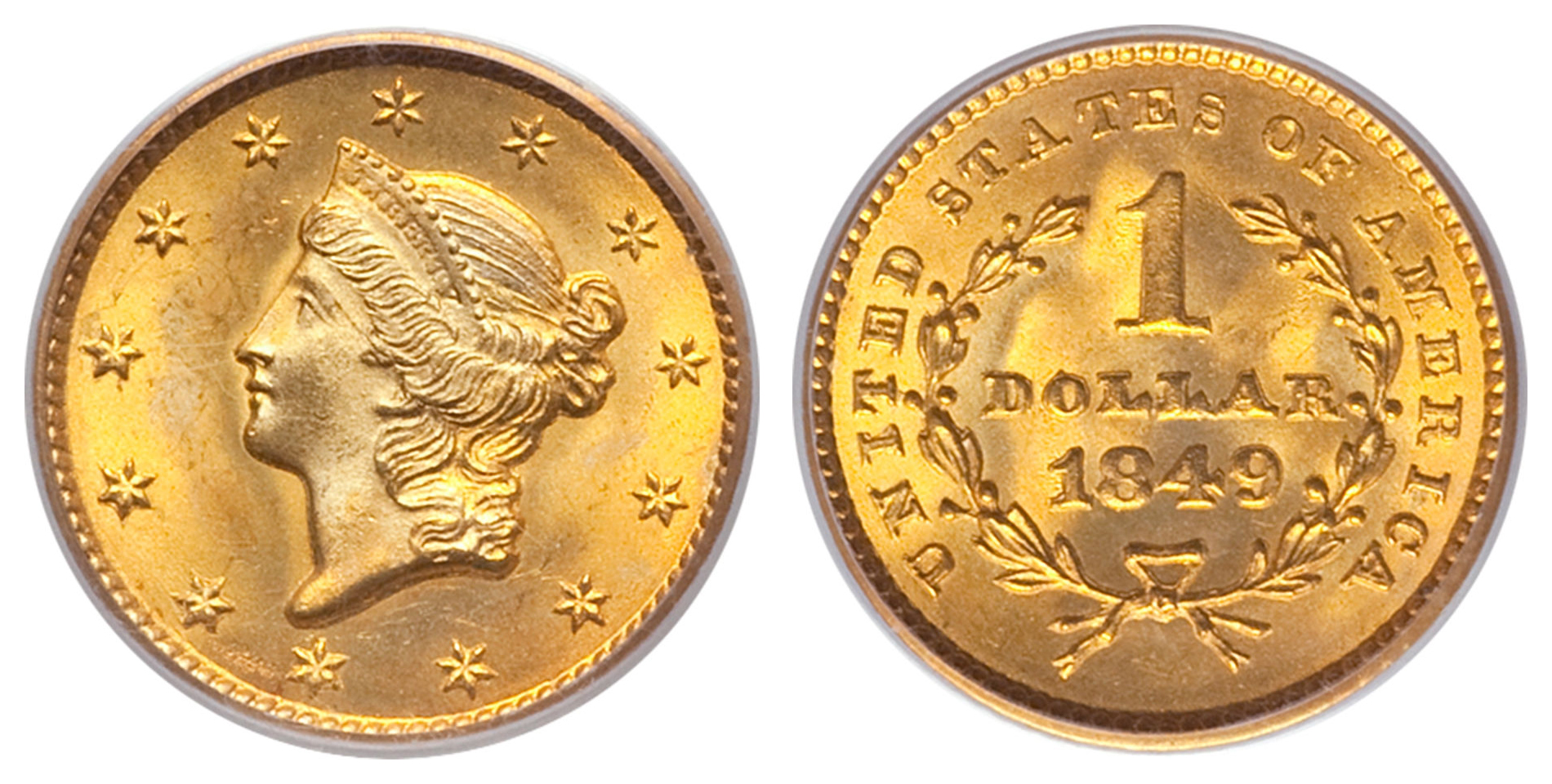 1849 G$1 Closed Wreath (1198-10510)